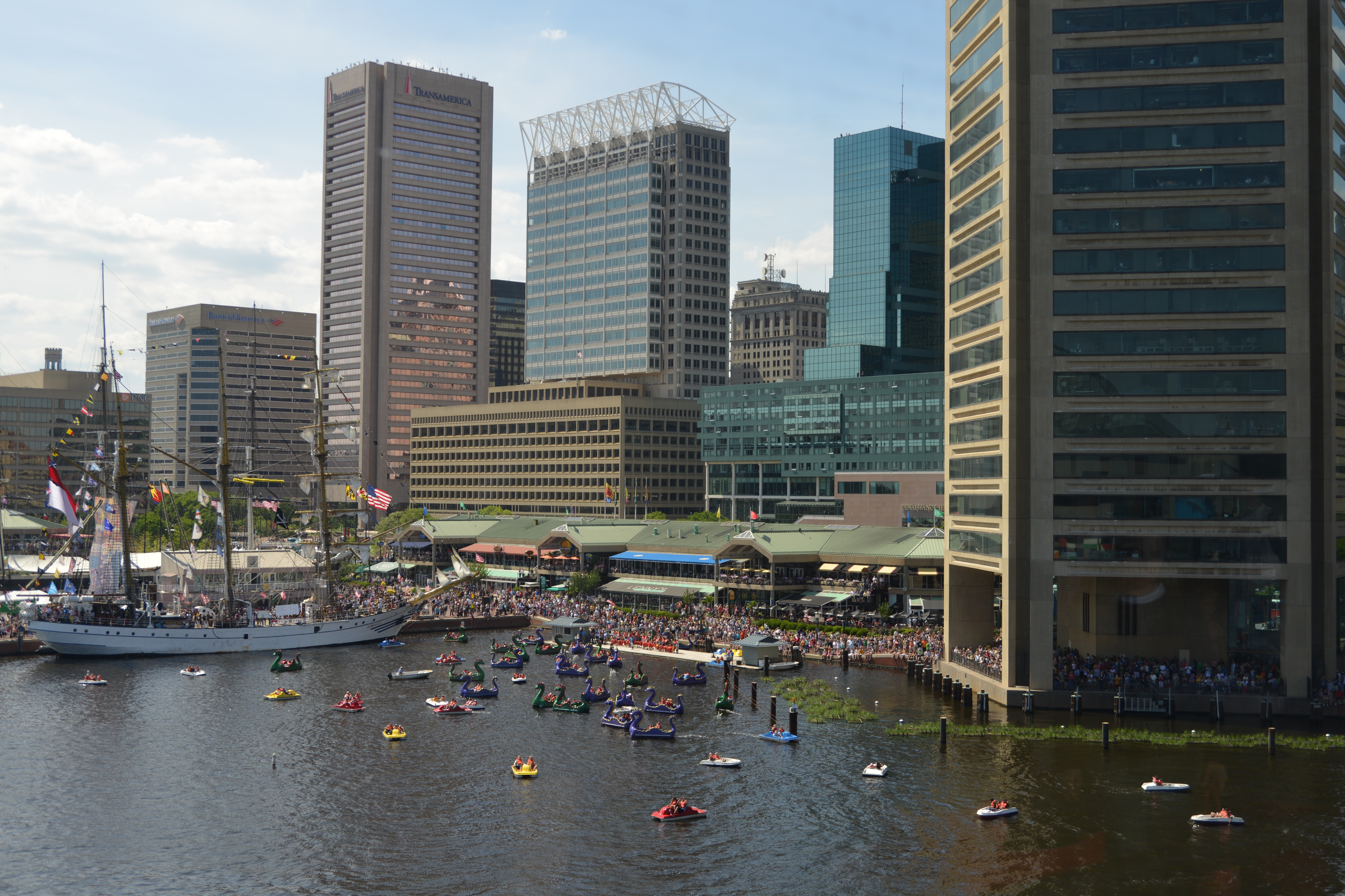 From the upstairs snack bar in the Baltimore Aquarium you can get a good view of part of the inner harbor.